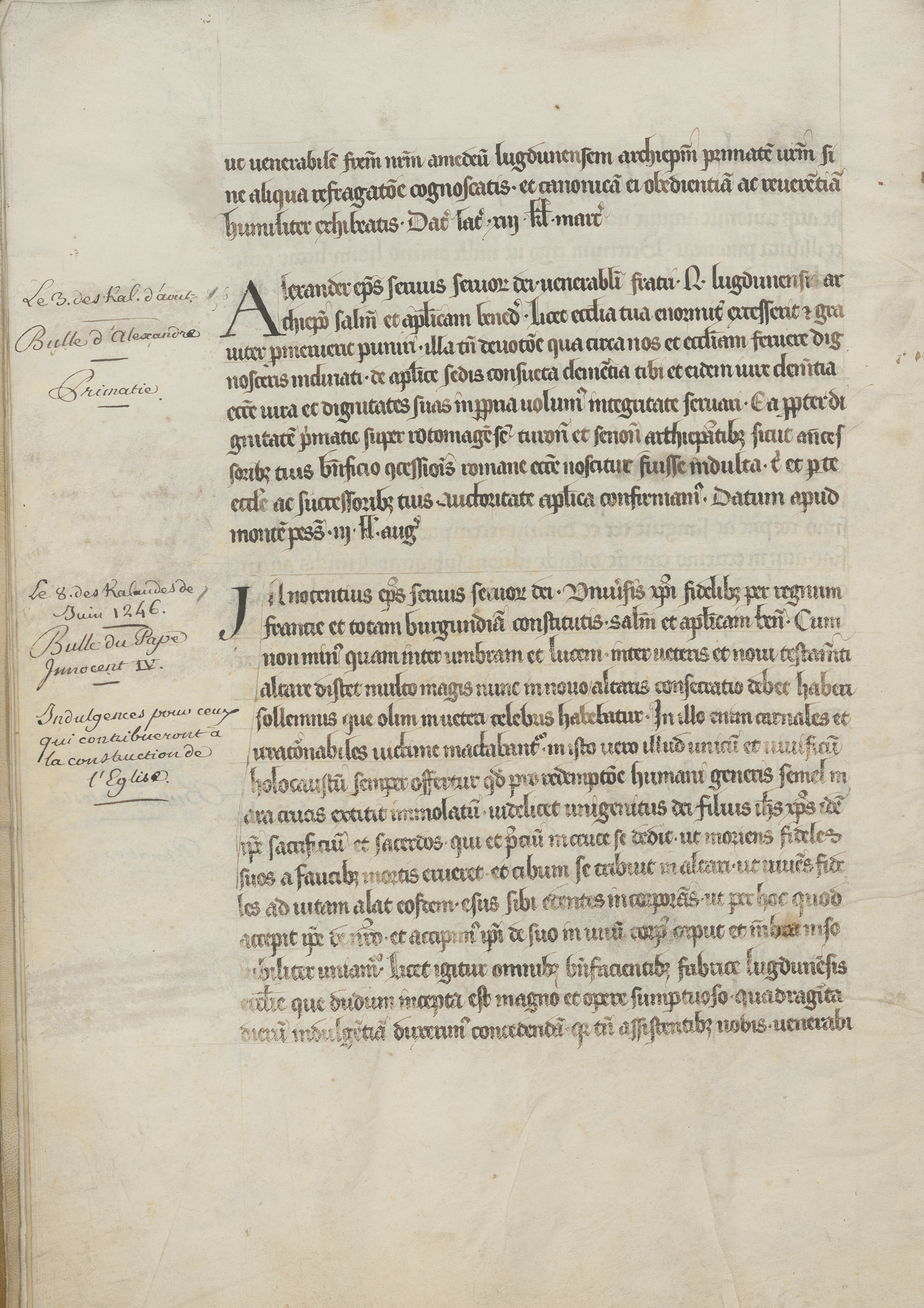 Cartulary of the chapter of Saint-Jean of Lyon. Kept by the Rhône's departmental archives (Lyon, France) under code: 10 G 576.